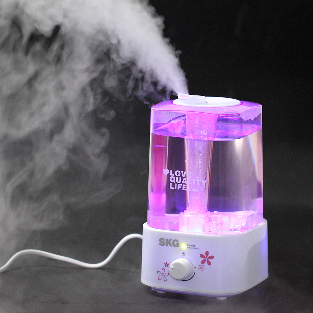 skg